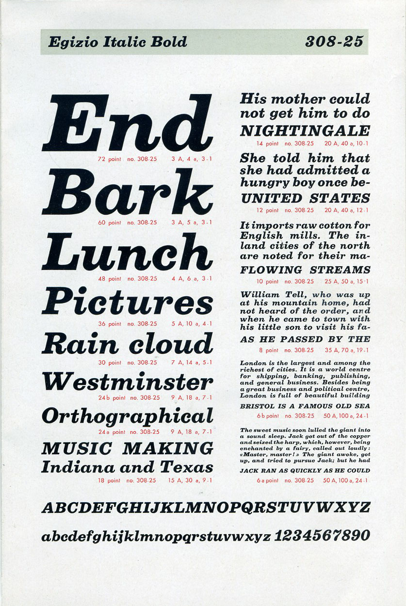 Specimen of the font Egizio, a take on Clarendon typefaces by Nebiolo of Italy. This attempted to add an italic, which Clarendons did not initially have. Opinions have varied on it, with David Berlow describing it as the best take on Clarendon in italic and Jonathan Hoefler calling it muddled.